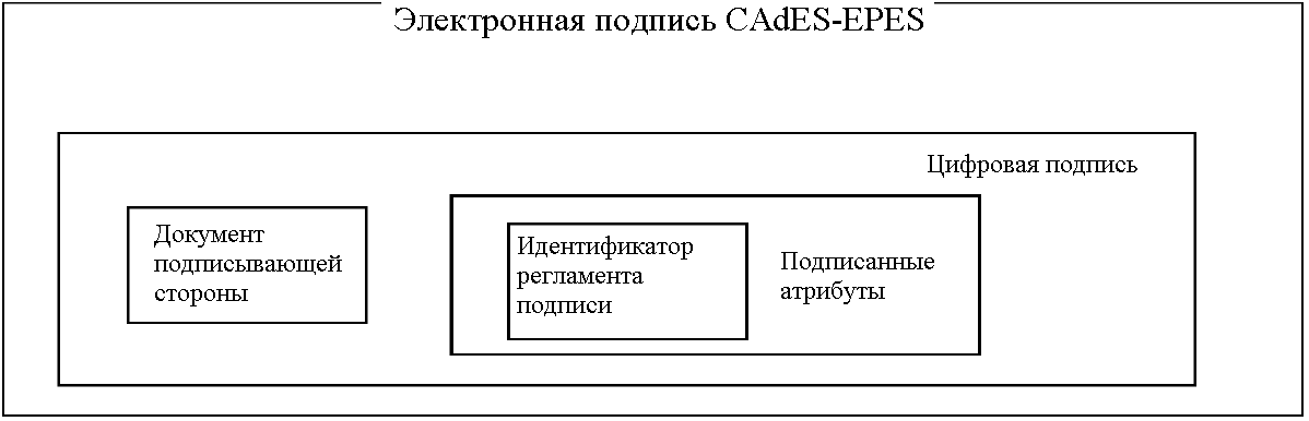 CAdES-EPES illustration